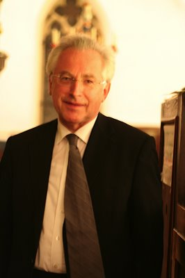 Prof. Gerhard Weinberger teaches organ and church music at the College of Music in Detmold / OWL-Germany